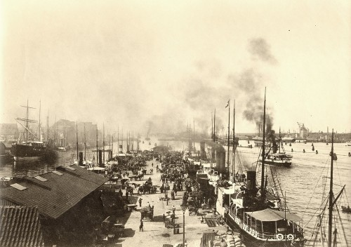 Kvæsthusbroen in Copenahgen, Denmark